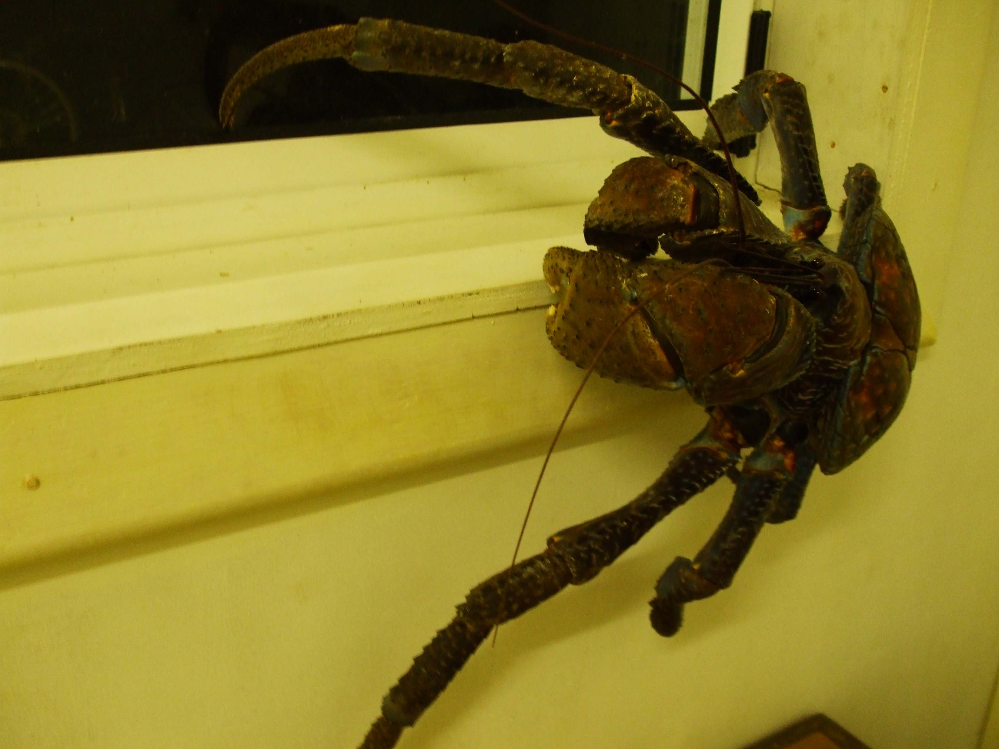 photo of a Coconut Crab climbing out a window